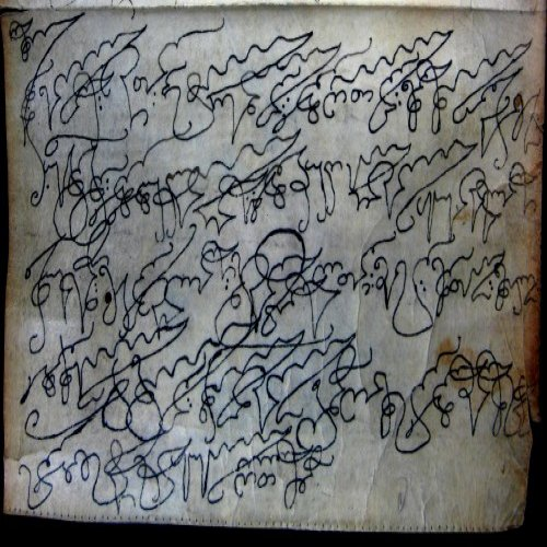 A will of Surameli addressed to the Shiomgvime monastery